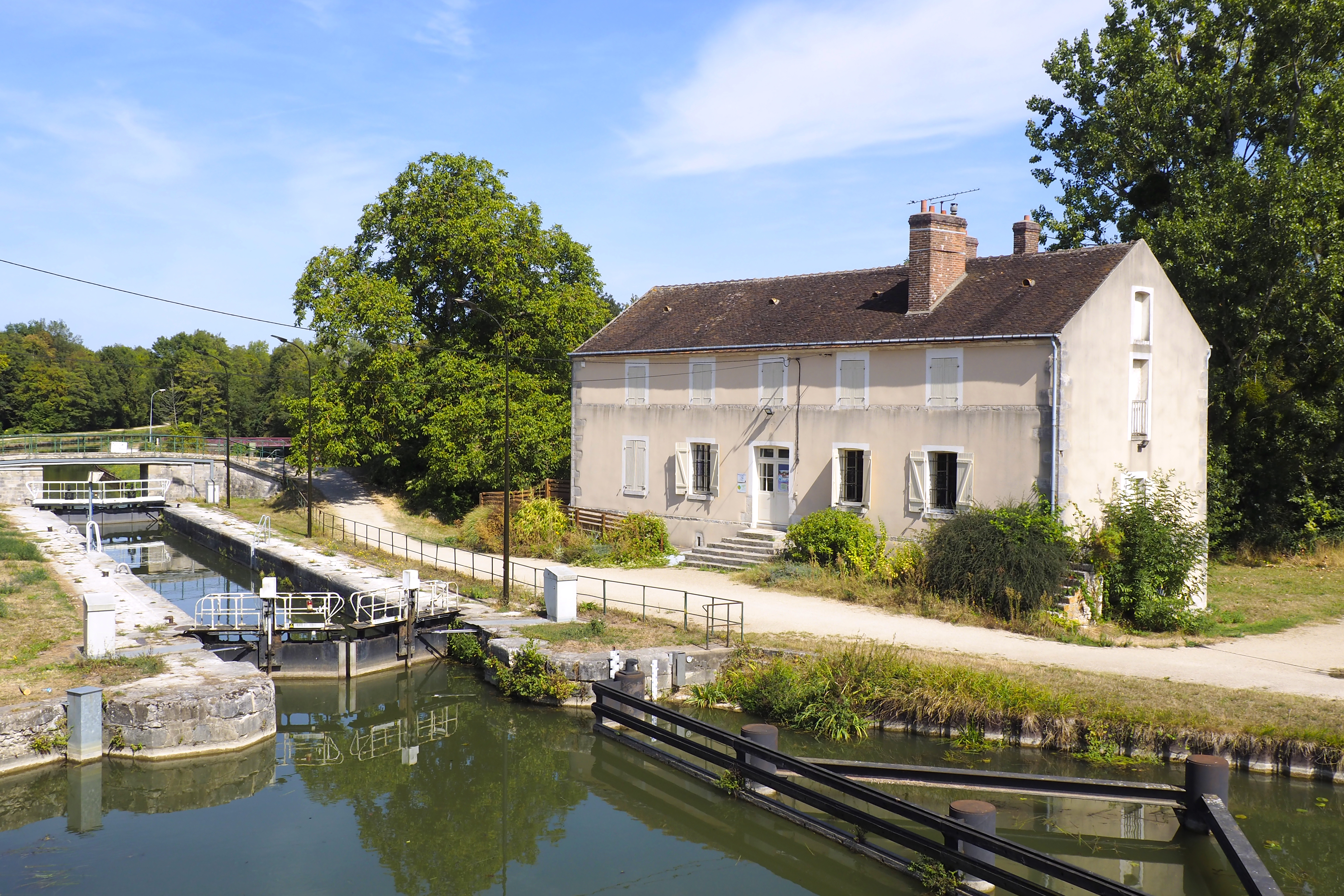 Buges is the junction point of the three canals of Briare, Orleans and Loing since 1724 (end of construction of the Loing Canal). Located near the old stationery, the site includes a lock, a house rebuilt around 1820 that housed the lock keeper and controller housing (distributed by two corridors and two stairs), a large metal walkway above Canal d'Orléans, a second footbridge and a spillway area on the river Solin. (source: merimee) .